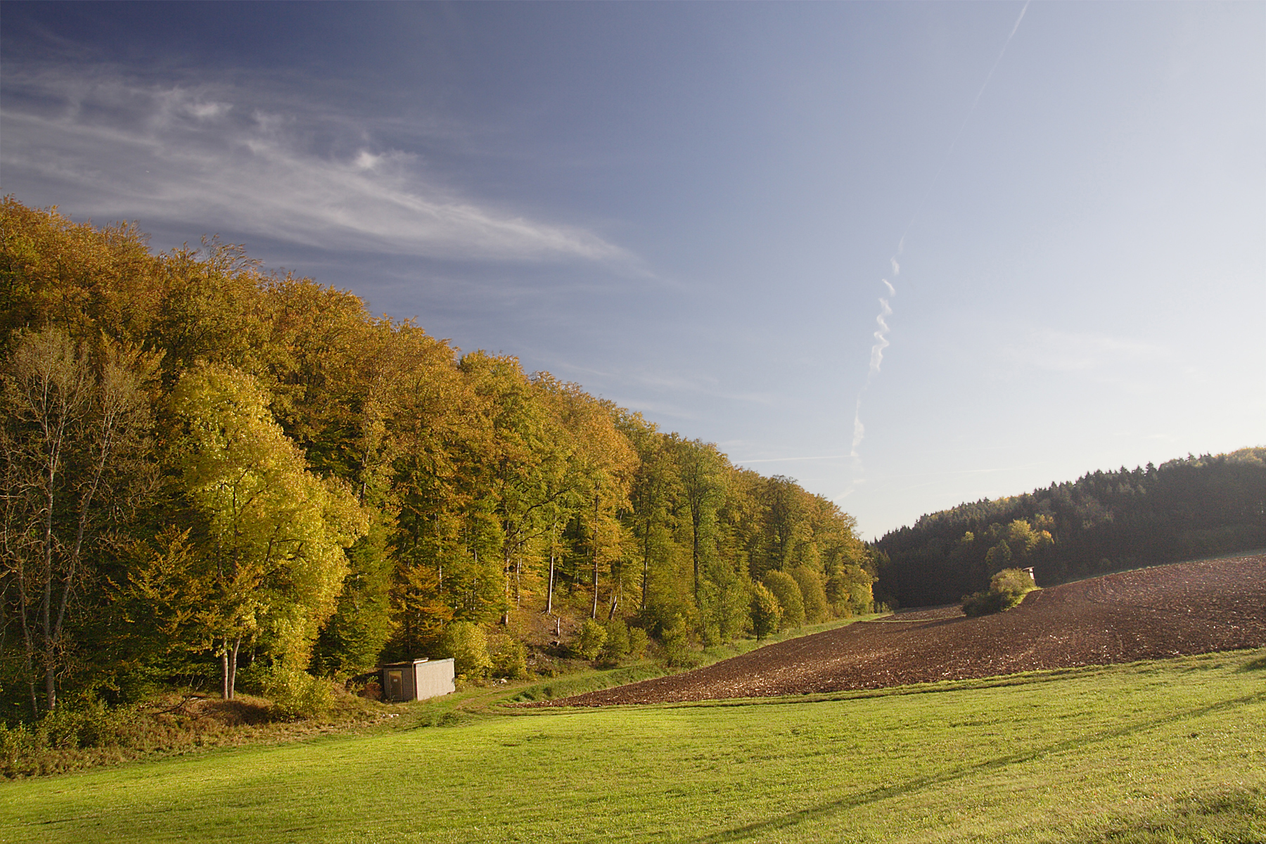 Lauchert-Graben, Swabian Alb. The first eastern dislocation is morphologically very significant. Here, E of Veringendorf, a community S of Veringenstadt the dip-slip reaches its maximum of ca. 100m.